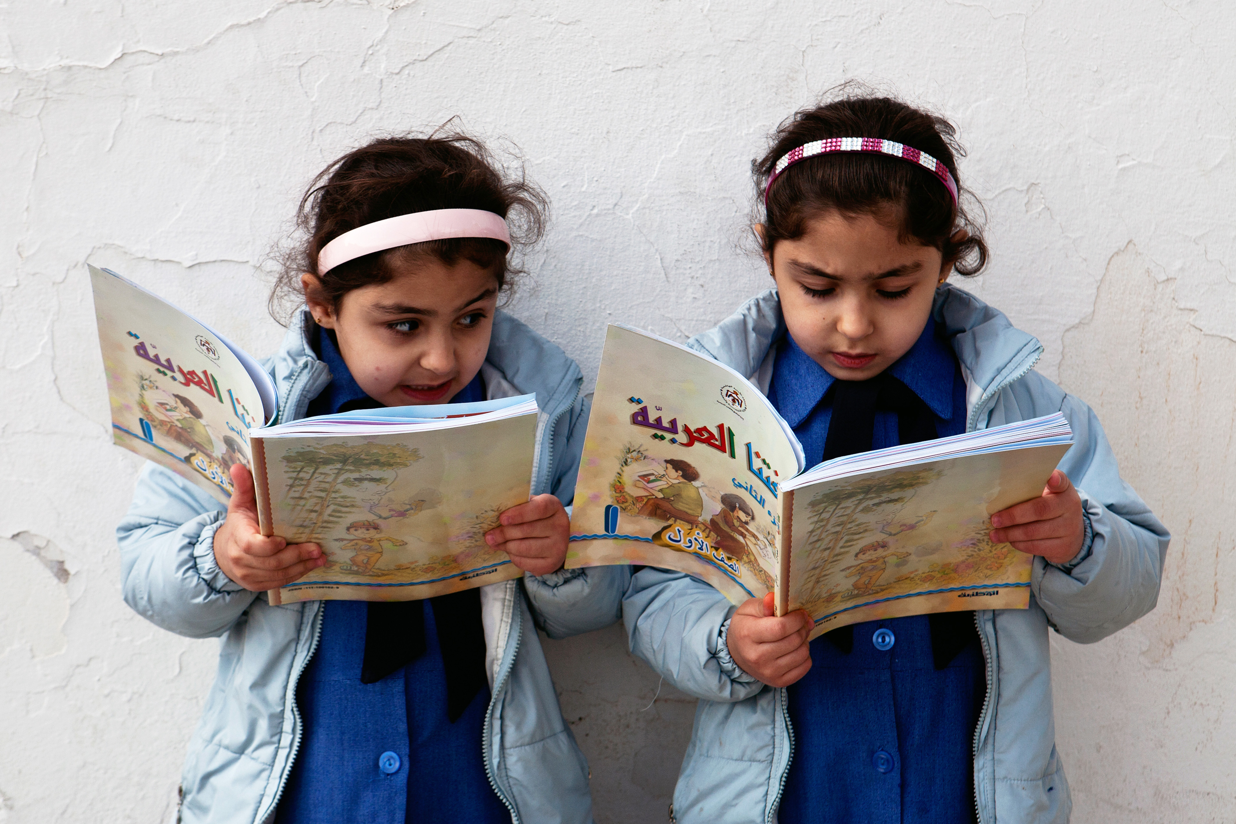 (2011 Education for All Global Monitoring Report) Government primary school in Amman, Jordan — Young girls reading